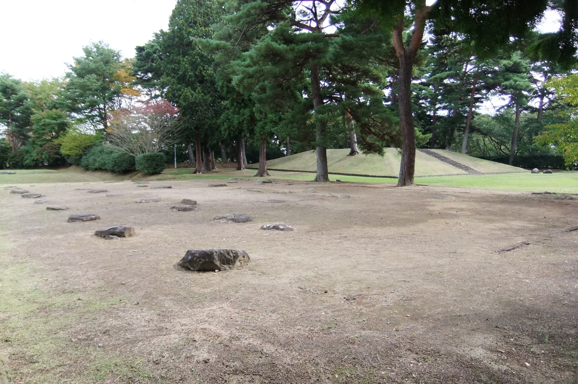 Remains of Tagajō Temple in Tagajō-shi, Miyagi.